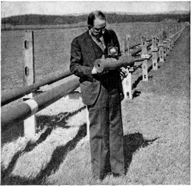 American electrical engineer George C. Southworth of Bell Telephone Laboratories, who in 1933 helped invent the waveguide, a metal pipe that carries radio waves. He is standing in front of two experimental prototype waveguide lines that were used in some of the original research on waveguide modes in the 1930s. He is holding a microwave cavity resonator.